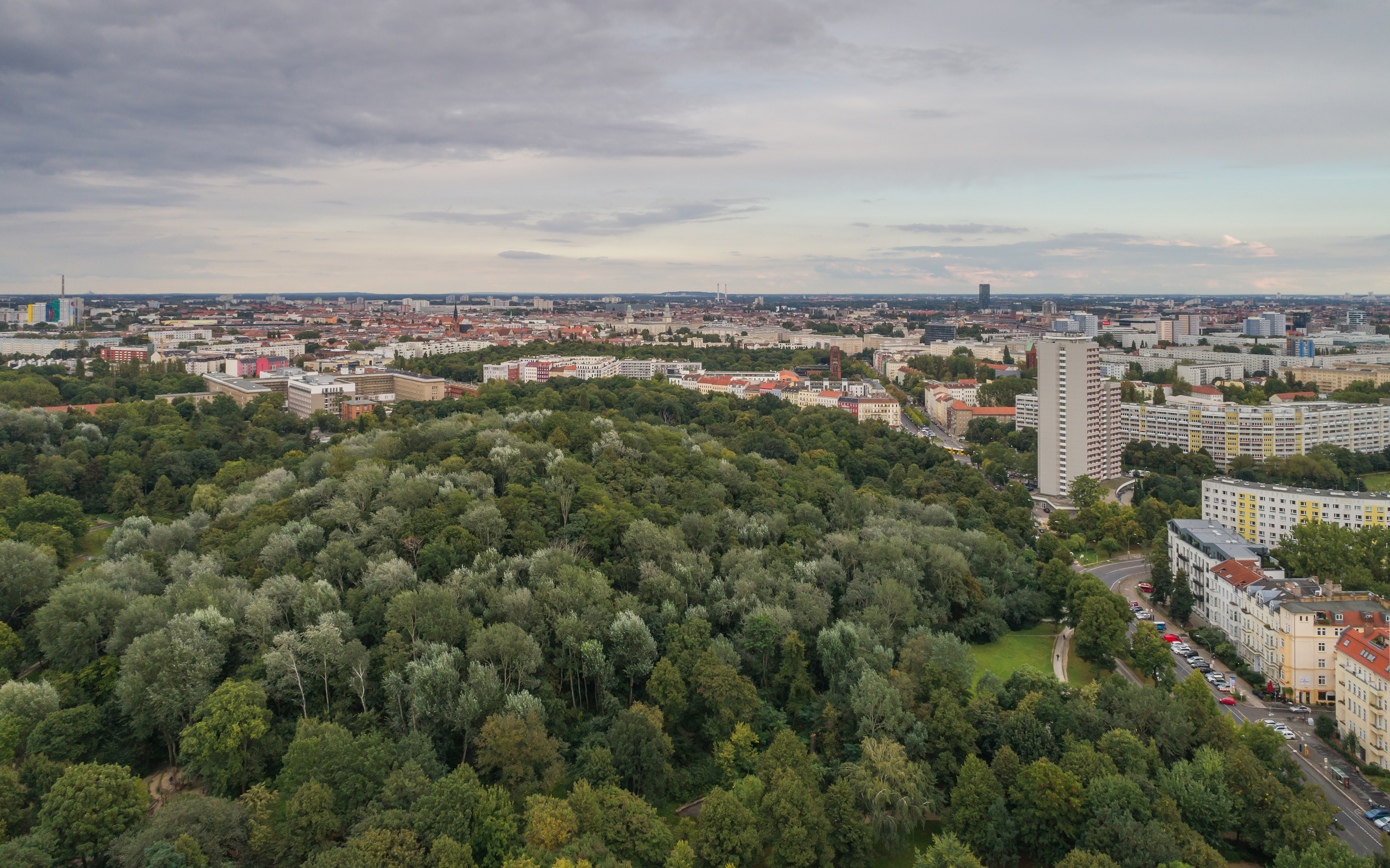 Aerial photo of Friedrichshain Park in Berlin (Germany)